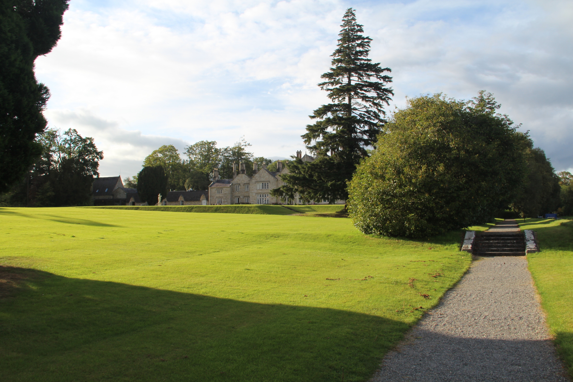 View of Castle from beside the Ha Ha Wall.